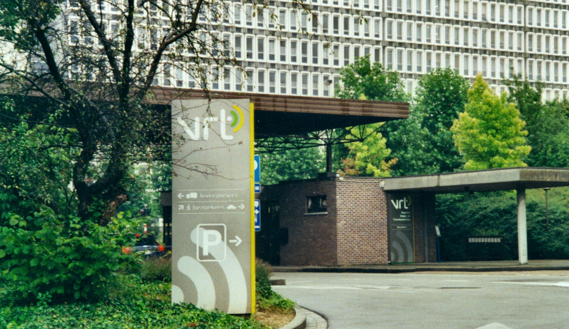 The Brussels headquarters of VRT, the Flemish-language public broadcaster in Belgium.